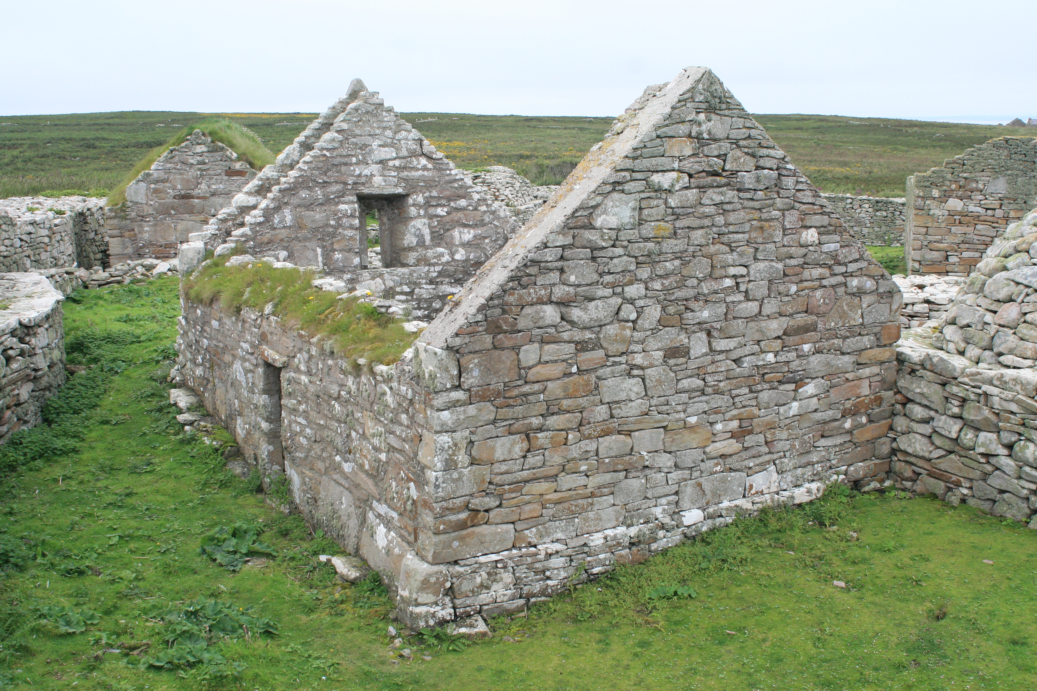 Teampall na Teine.